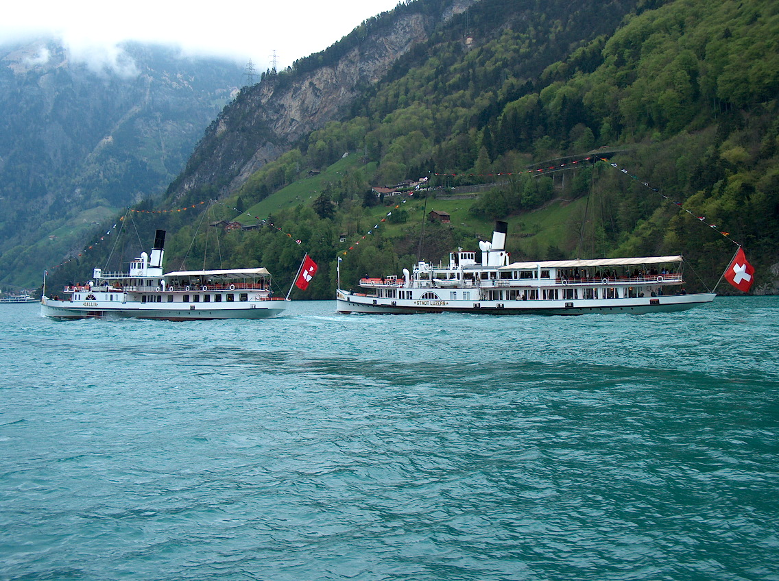 Lake Lucerne paddle steamers "Gallia" and "Stadt Luzern" in a steamer show race ("Gallia" won). Photo taken May 1, 2004 (Lake Lucerne "steamer parade" celebrating the renovation of steamer "Gallia").